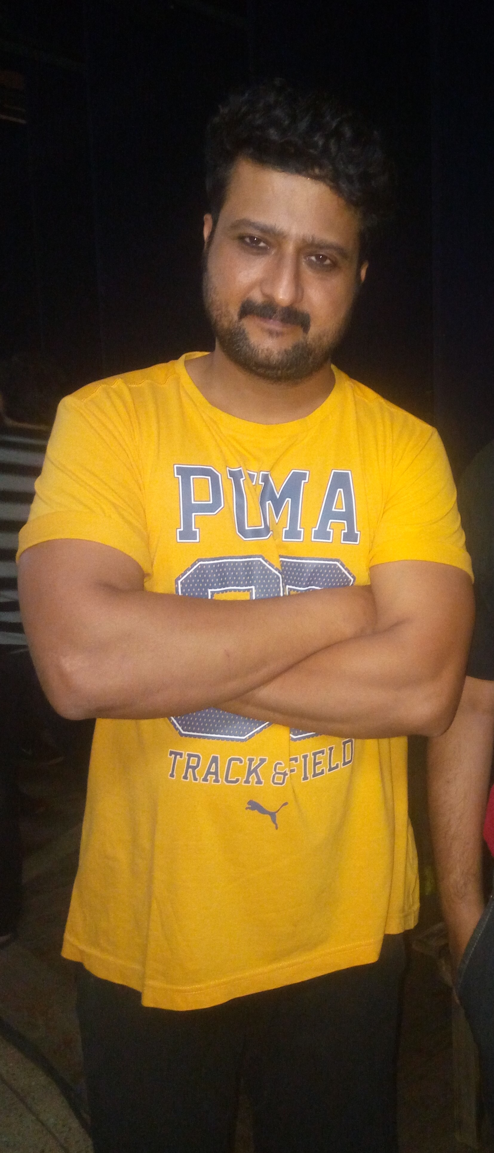 Jitendra Joshi